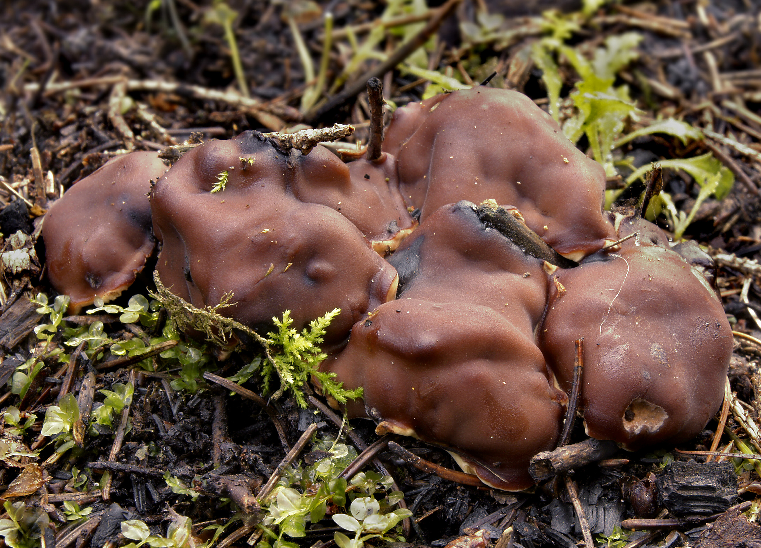 Pine Firefungus (Rhizina undulata); host: common spruce (Picea abies)